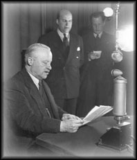 Väinö Tanner (1881-1966), reading the news about the peace in radio.